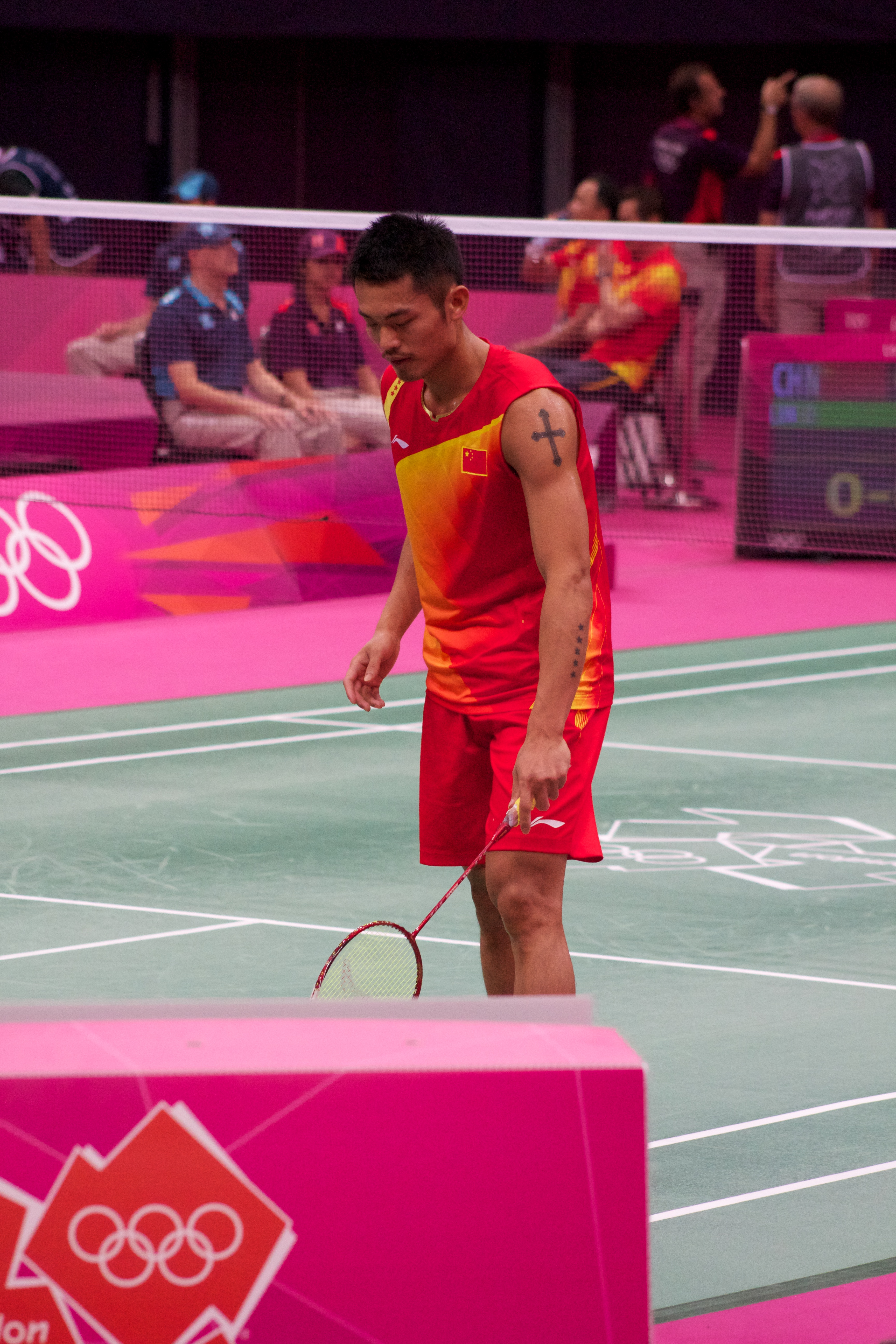 Badminton at the 2012 Summer Olympics